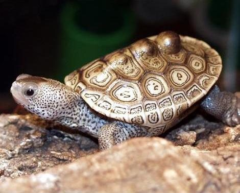 Diamondback Terrapin. Taken by CITES.